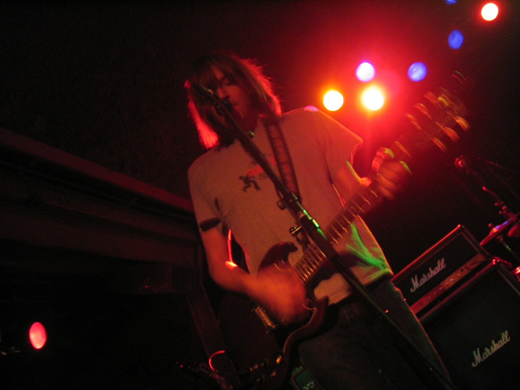 Lemonheads rawkin